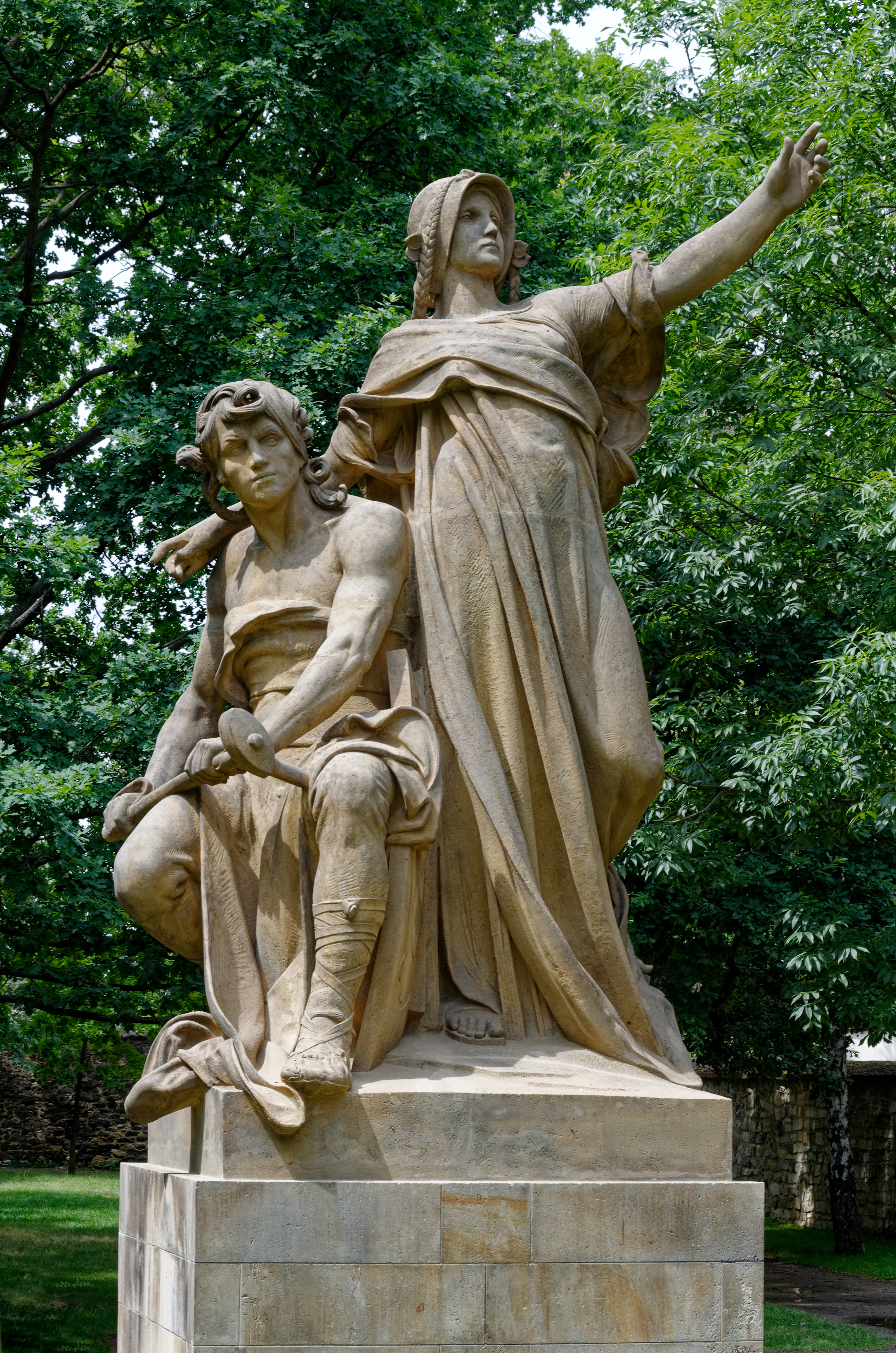 Přemysl a Libuše, Vyšehrad, Prague, Czech Republic. Sculpture designed by Josef Václav Myslbek in 1881 and finished in 1890 depicts two characters from old Czech legends - Princess Libuše (in the moment when she foretells future glory of Prague) and her husband Přemysl the Plower, both mythical ancestors of the Přemyslide dynasty. It was originally placed at the Palacký Bridge, but was heavily damaged during US air raid in February 1945. The statues from the bridge were transferred to Vyšehrad in 1947 except this one. A copy of Přemysl and Libuše has been made later and placed in the Vyšehrad park since 1978.